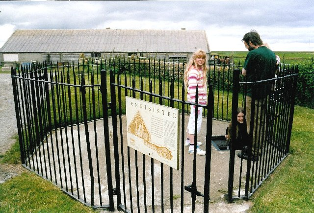 Rennibister souterrain. One of many Orcadian souterrains (storage cellar) now accessed directly through the roof. The spacious cellar area still has the original passage (underground) which led down from the bronze age house, but no trace of the house remains.